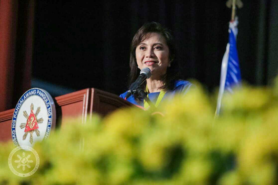 At 4:00 pm, the Vice President attended the seminar on Gender Sensitivity in San Sebastian College Recoletos Manila as a resource speaker. The San Sebastian Senior High School Faculty organized the seminar to instill in its students the importance of gender sensitivity. As part of the school’s annual operations plan and syllabus, they aim to institutionalize the conduct of similar seminars and modules in the Senior High School Department in the coming years.